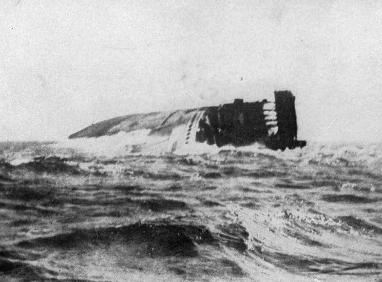 Wreck of the SMS Kaiser Wilhelm der Grosse off Africa. This picture was published in the french newspaper Le Miroir n° 53 dated Sunday november the 29th of 1914 on page 16.